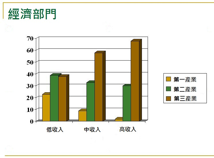 Economic sectors and income This figure illustrates the percentages of a country's economy made up by different sectors based on its level of income or development. The primary sector is the extraction of raw materials. The secondary sector is the conversion of raw materials into manufactured goods. The tertiary sector is the provision of services rather than manufacture of goods. The figure illustrates that countries with higher levels of socio-economic development tend to have less of their economy made up of primary and secondary sectors and more emphasis in tertiary sectors. The less developed countries exhibit the inverse pattern.